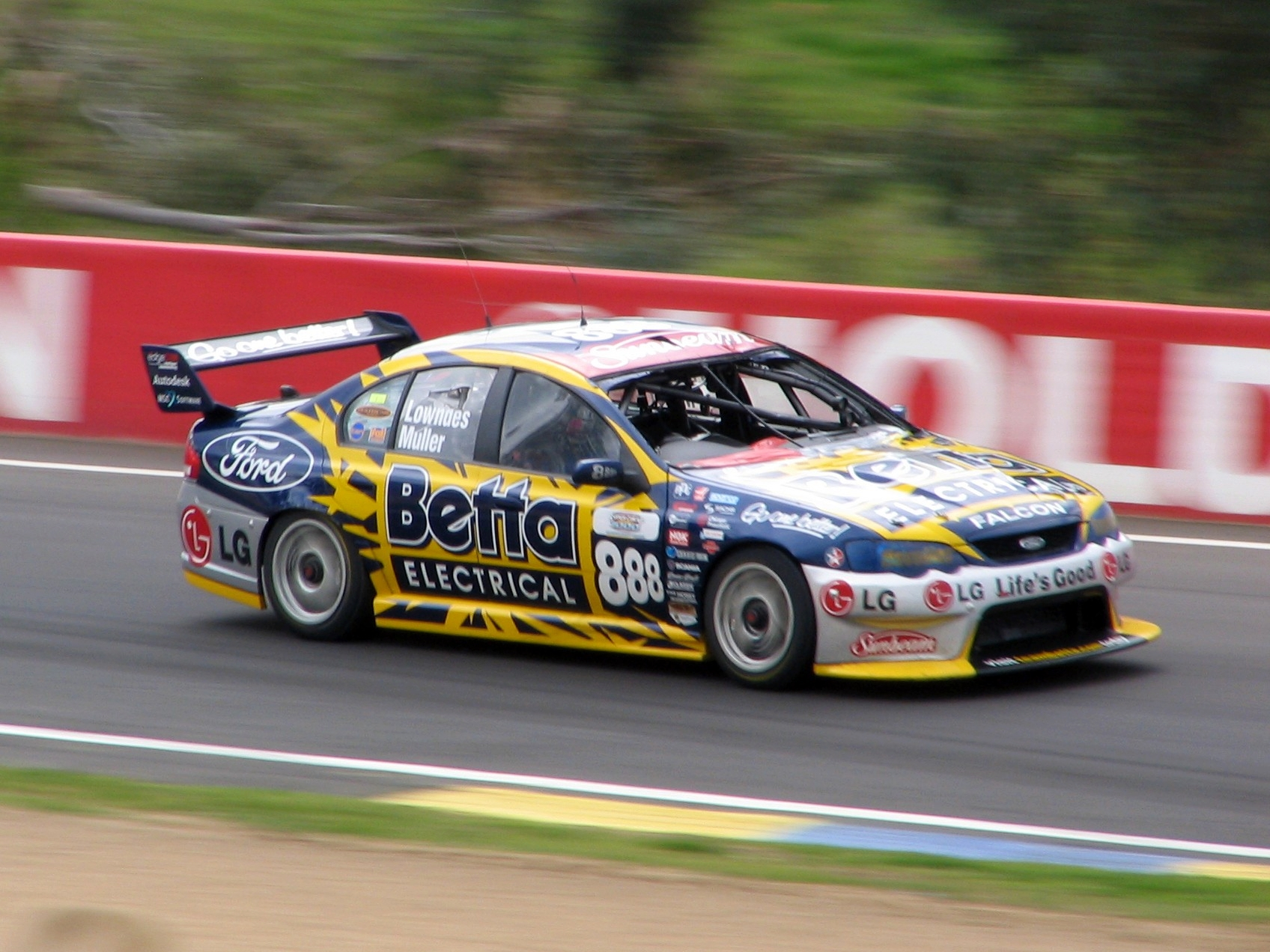 The damaged Team Betta Electrical Ford BA Falcon of Craig Lowndes and Yvan Muller at the 2005 Super Cheap Auto 1000, Mount Panorama Circuit, Bathurst, New South Wales, Australia